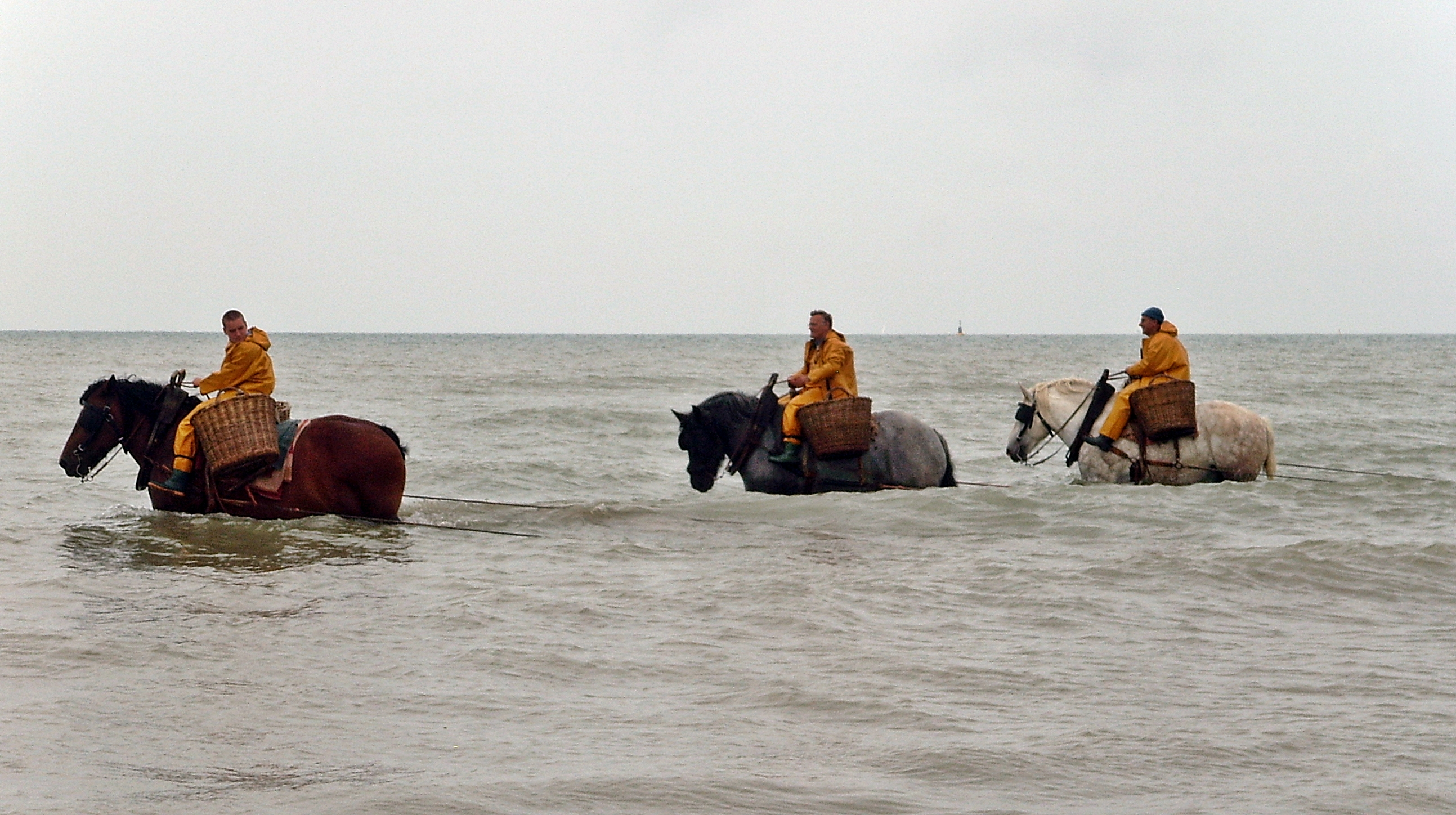 Shrimpers on horseback in Oostduinkerke, Koksijde, Arrondissement of Veurne, West Flanders, Flanders, Belgium